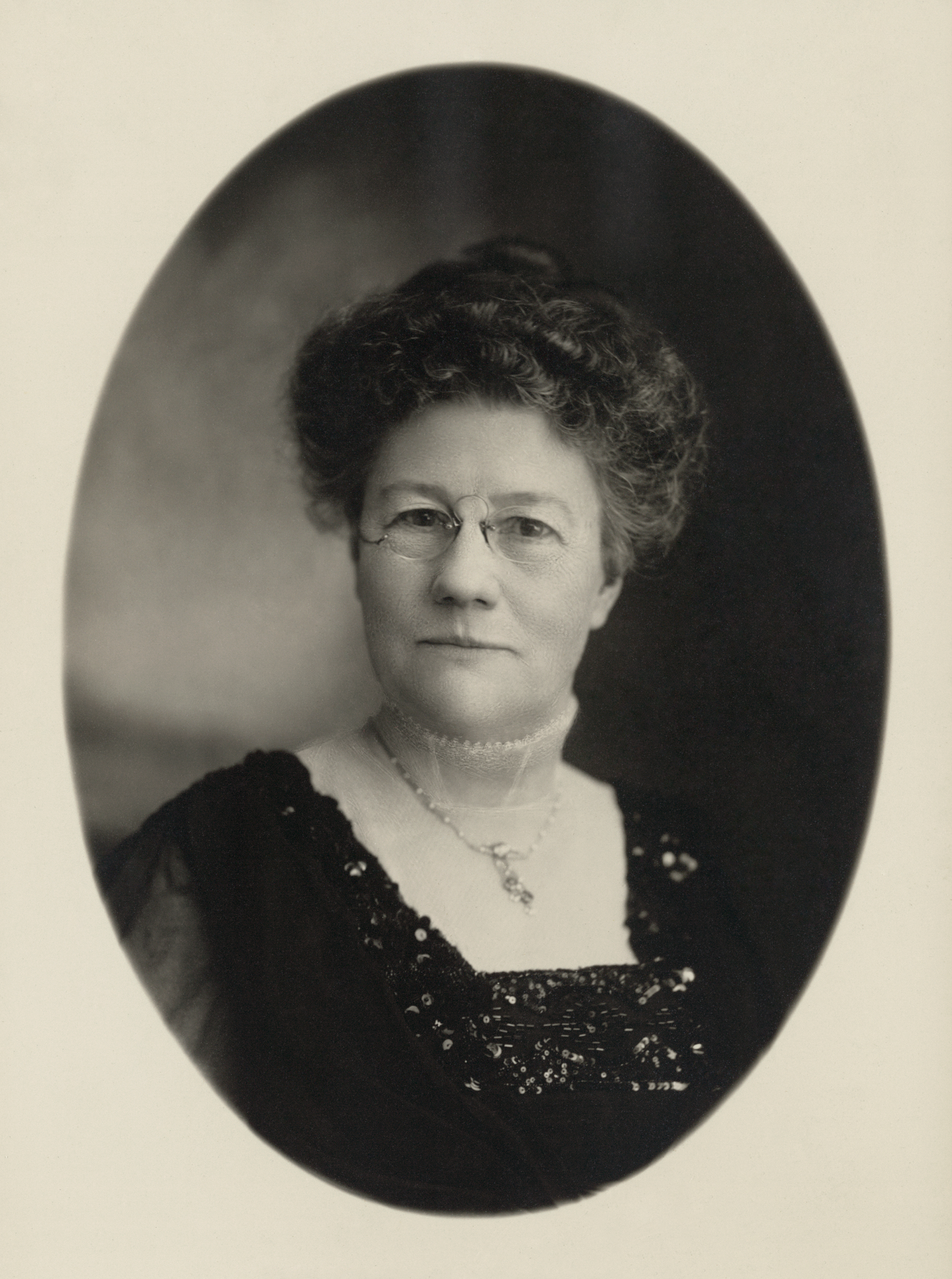 Formal portrait, head and shoulders, Ida Husted Harper, wearing eye glasses (pince-nez), necklace, and dress with high, ruffled collar and sequins on bodice.